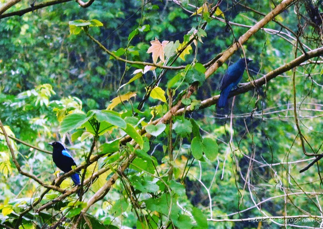 A pair of Asian Fairy-bluebird Irena puella in Nameri